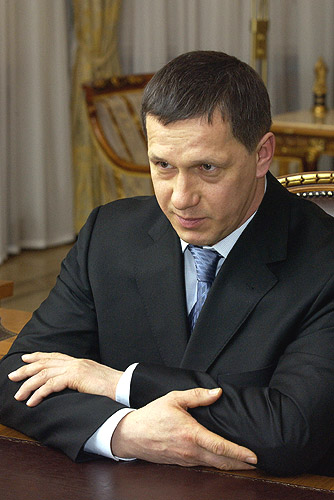 Yuri Trutnev, a Russian politician.